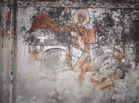 A fresco of St. George by the Georgian painter Theodore. Ipari Church of Archangel, Svaneti, Georgia